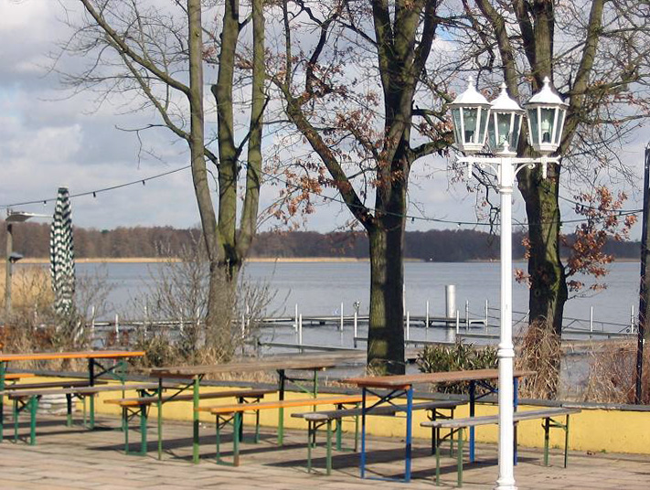 Müggelsee in Berlin-Köpenick. Restaurant „Rübezahl“ with Müggelsee-terraces.